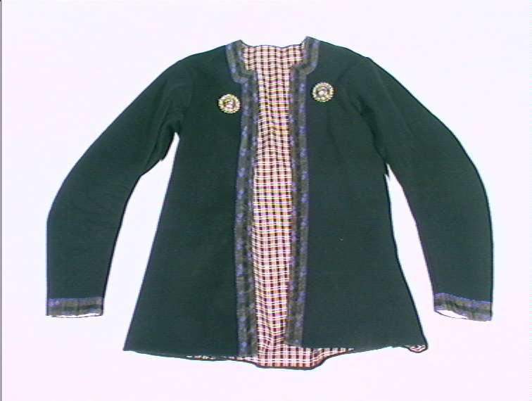 Green woman's jacket, from the collection of Norsk Folkemuseum (Norwegian Folk Museum) acquired in 1965. Worn in Kvinnherad, Hordaland, Norway.